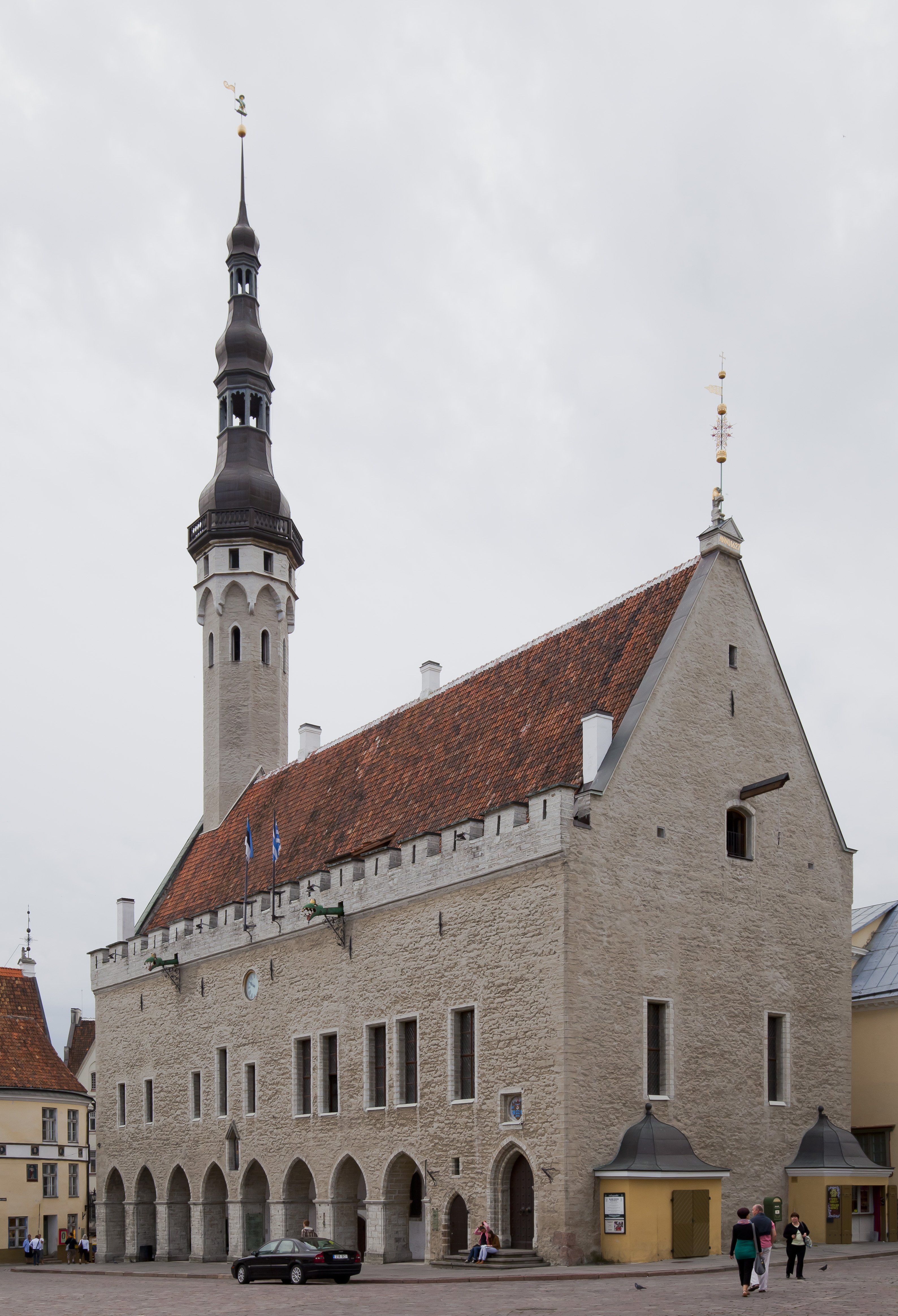 Town Hall Square, Tallinn, Estonia